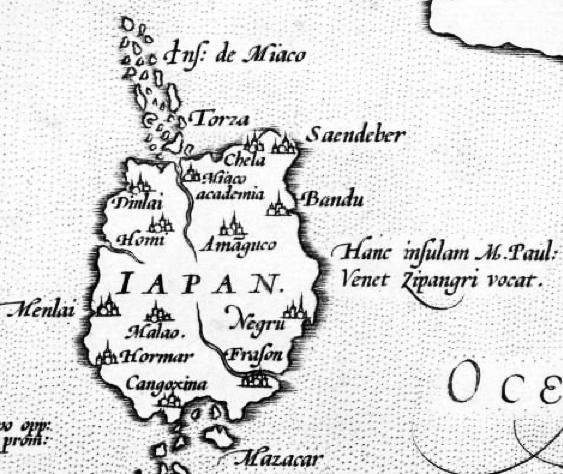 Japan in the map of East Asia published by Abraham Ortelius (1527–1598) in 1572. As the first Europeans have arrived in 1549, Japan is still depicted as one big island following Marco Polo's report.